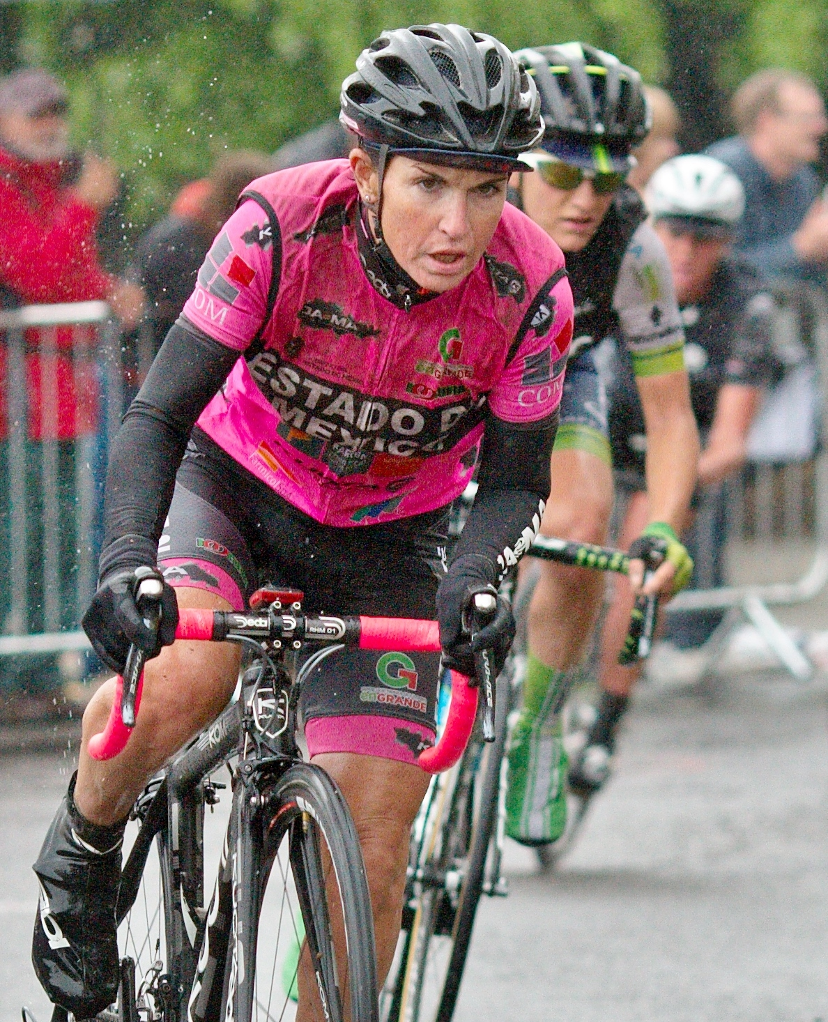 Fabiana Luperini (Estado de Mexico Faren) coming out of the final turn during stage two of the Women's Tour 2014.